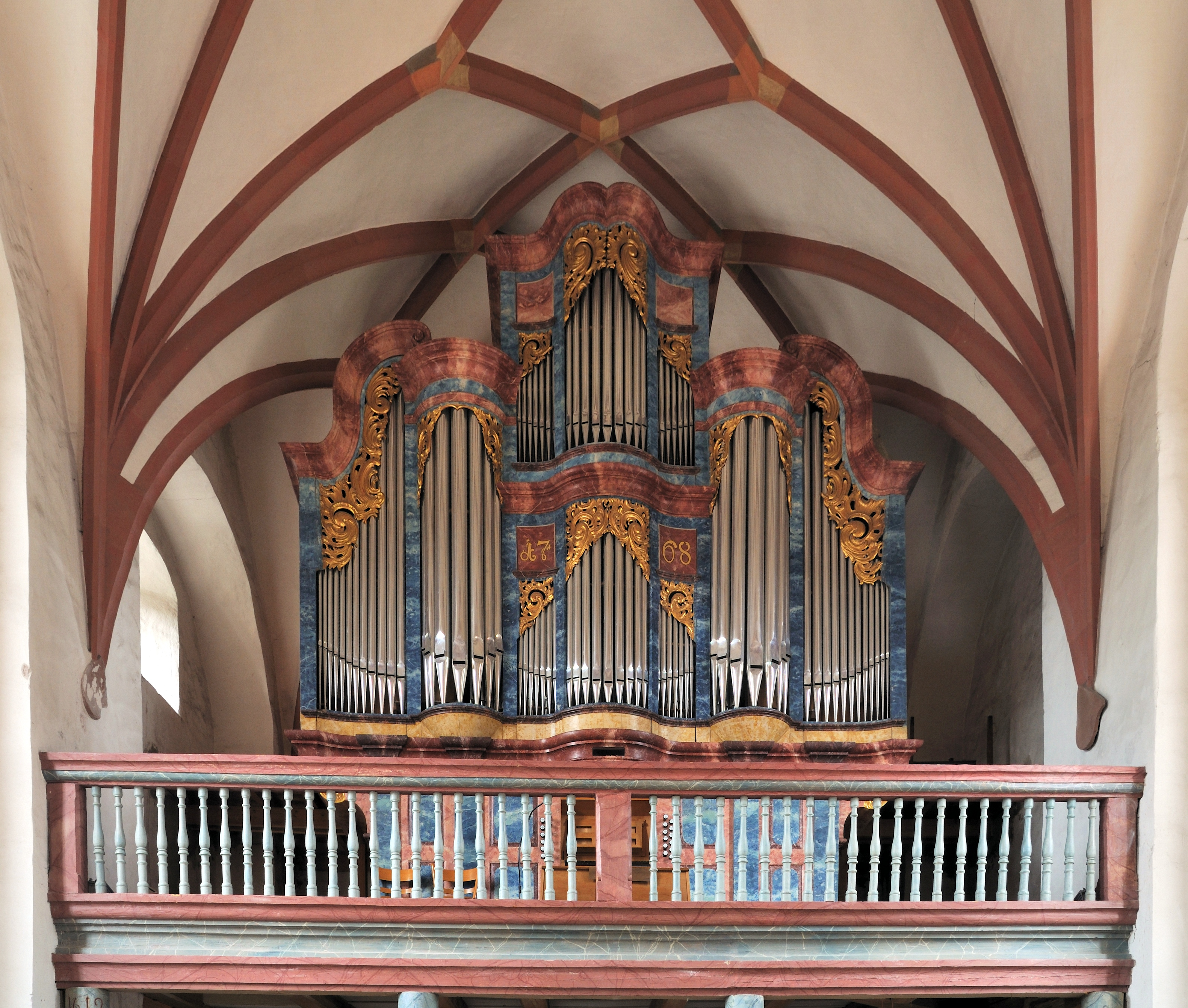 Schopfheim: Old City Church